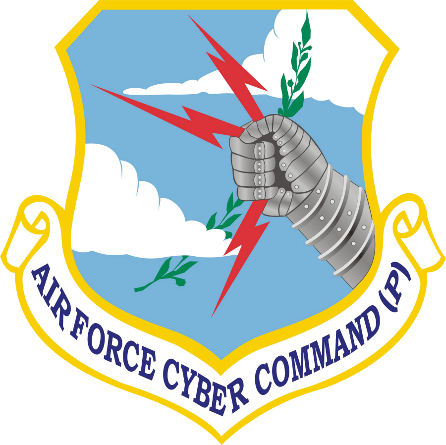 Emblem of Air Force Cyber Command (Provisional) of the United States Air Force